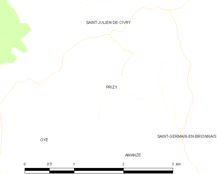 Map of French municipality